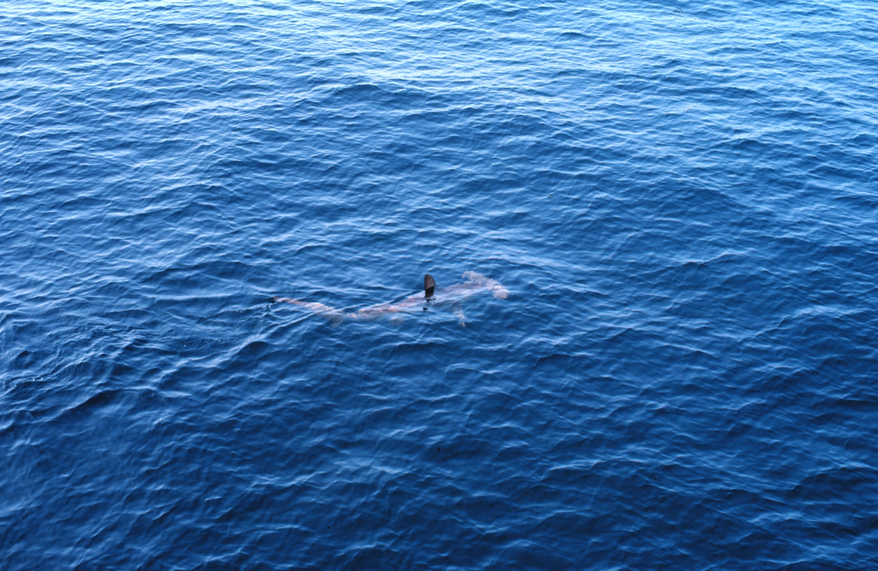 Smooth hammerhead shark (Sphyrna zygaena) passing bow of ALBATROSS IV while ship underway Apparently a hammerhead migration as ship saw hundreds of hammerheads swimming to northeast during the day. Image ID: corp1720, NOAA Corps Collection Location: Off New Jersey coast